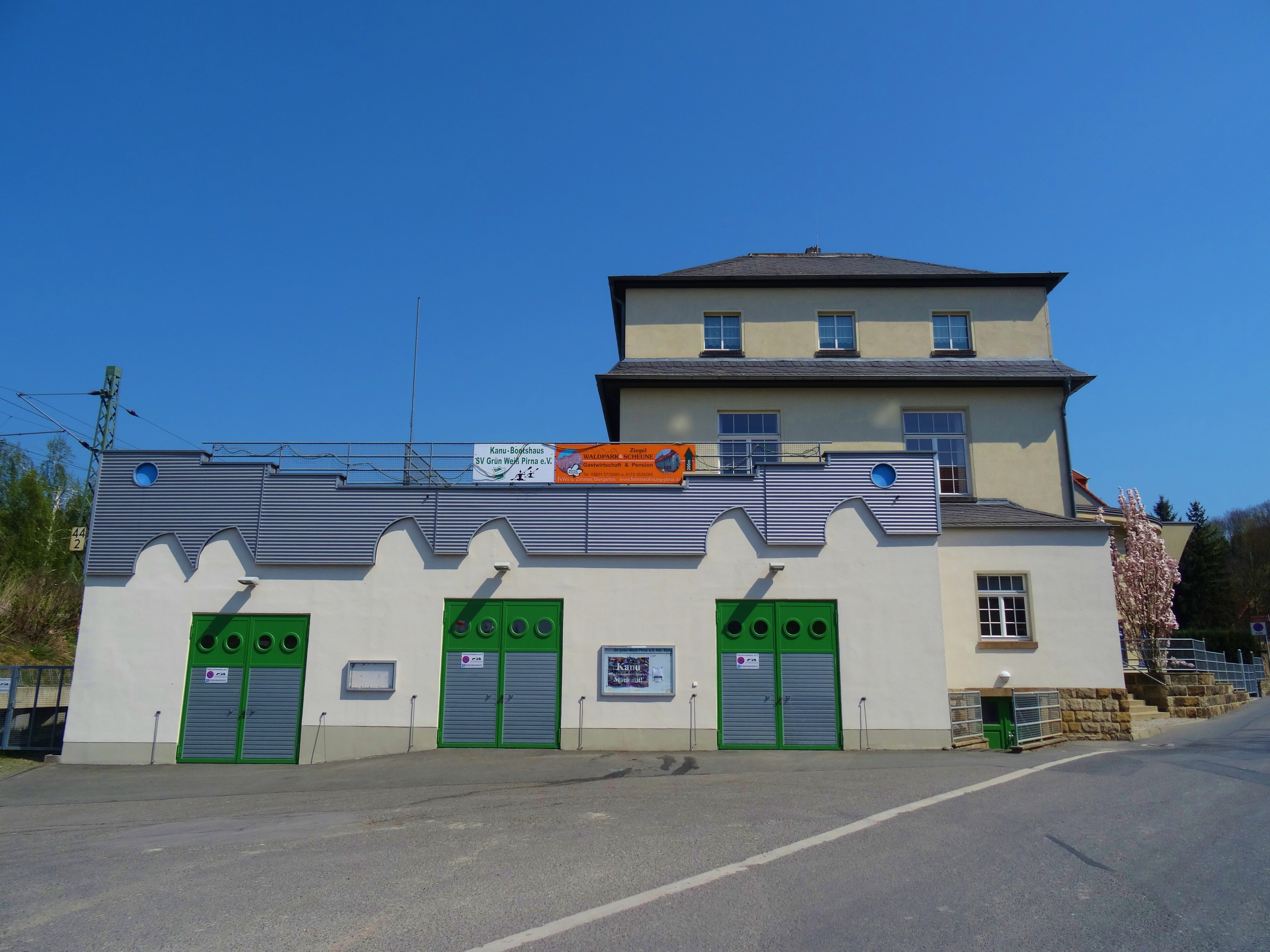 The Steinplatz square and street in Pirna.